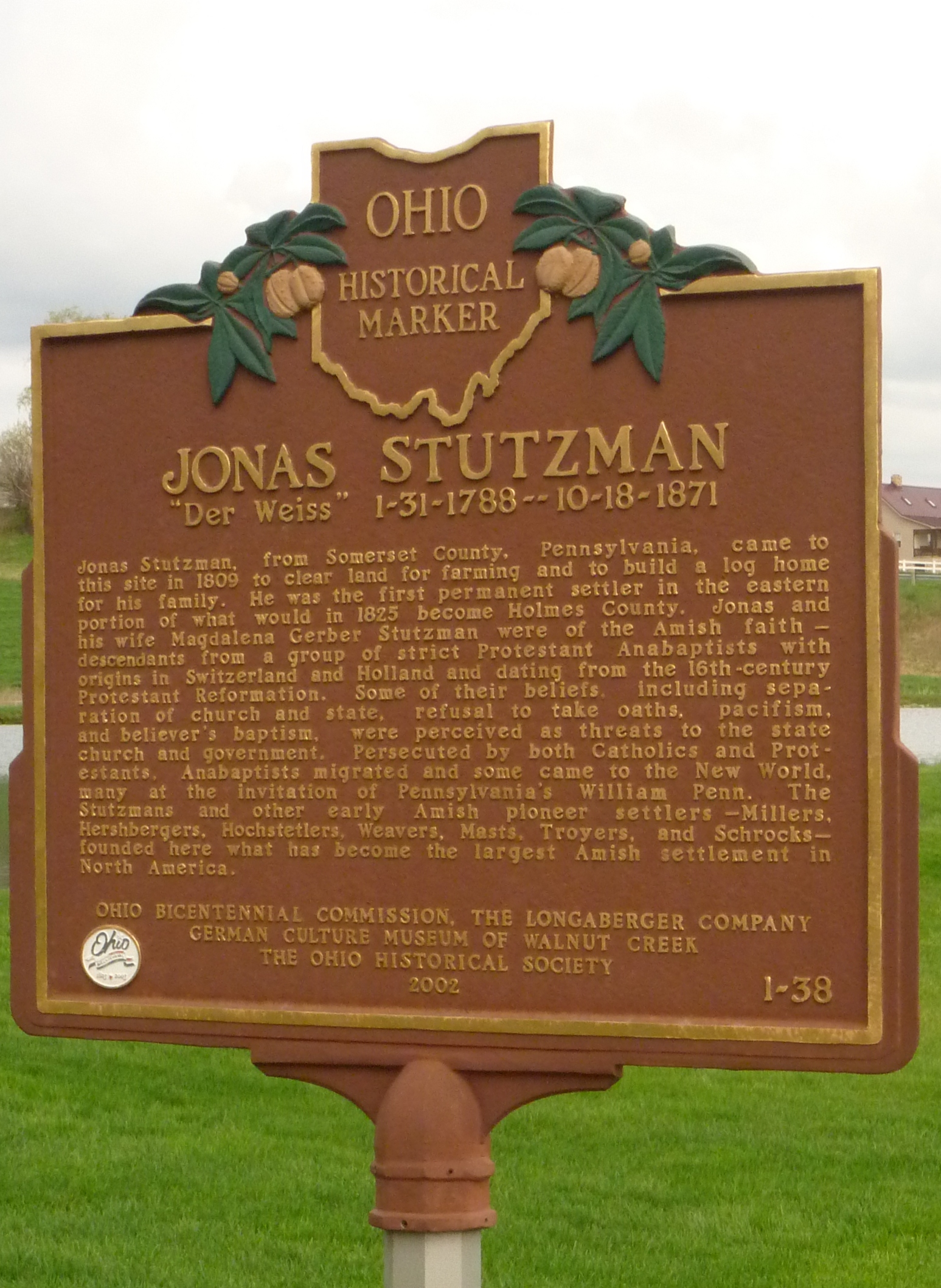 Jonas Stutzman was the first white man to settle in eastern Holmes County, Ohio. This marker commemorates him.